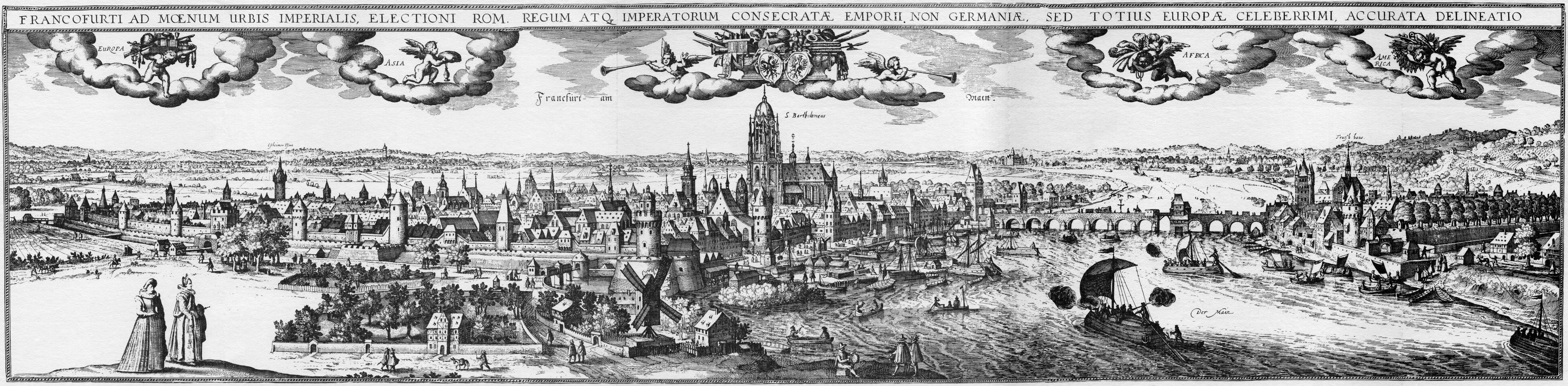 Frankfurt on the Main: View of the city as seen from the southwest